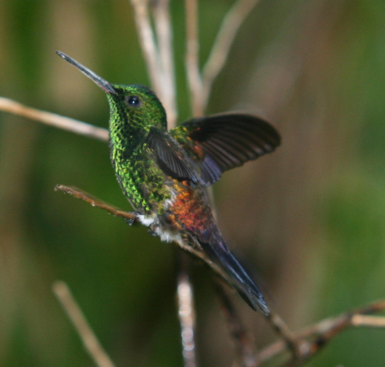 A colorful hummingbird on a tree branch at Tobago in the Caribbean state of Trinidad and Tobago.